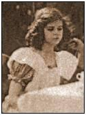 Photograph of Gladys Hulette in 1910